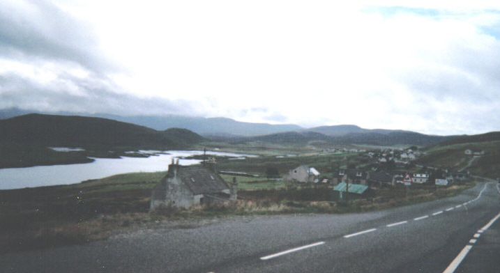 Balallan, or Baile Ailein, is a village in the Isle of Lewis (Leòdhas), situated in the Na Lochan area.